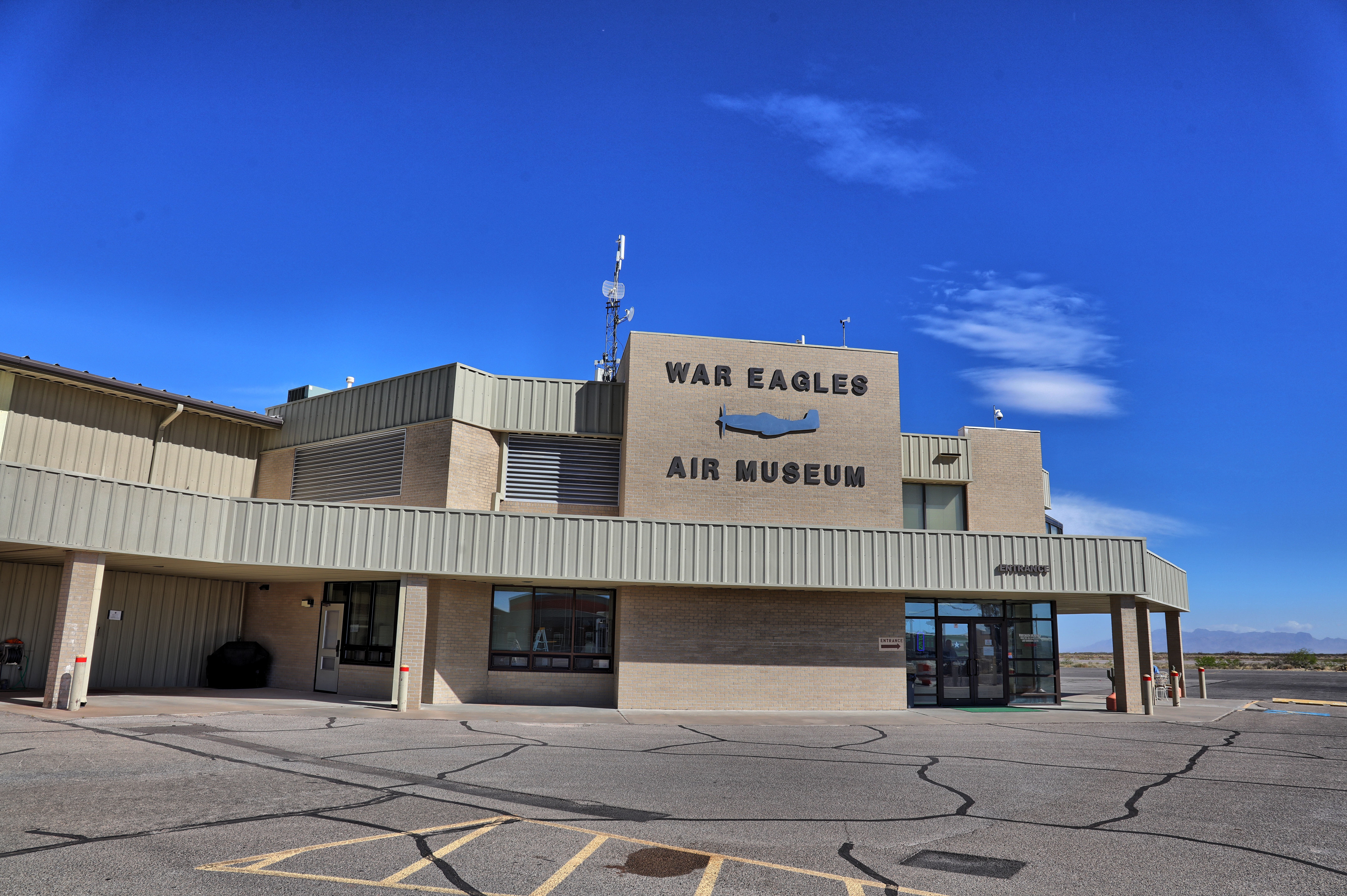 Building of War Eagles Air Museum